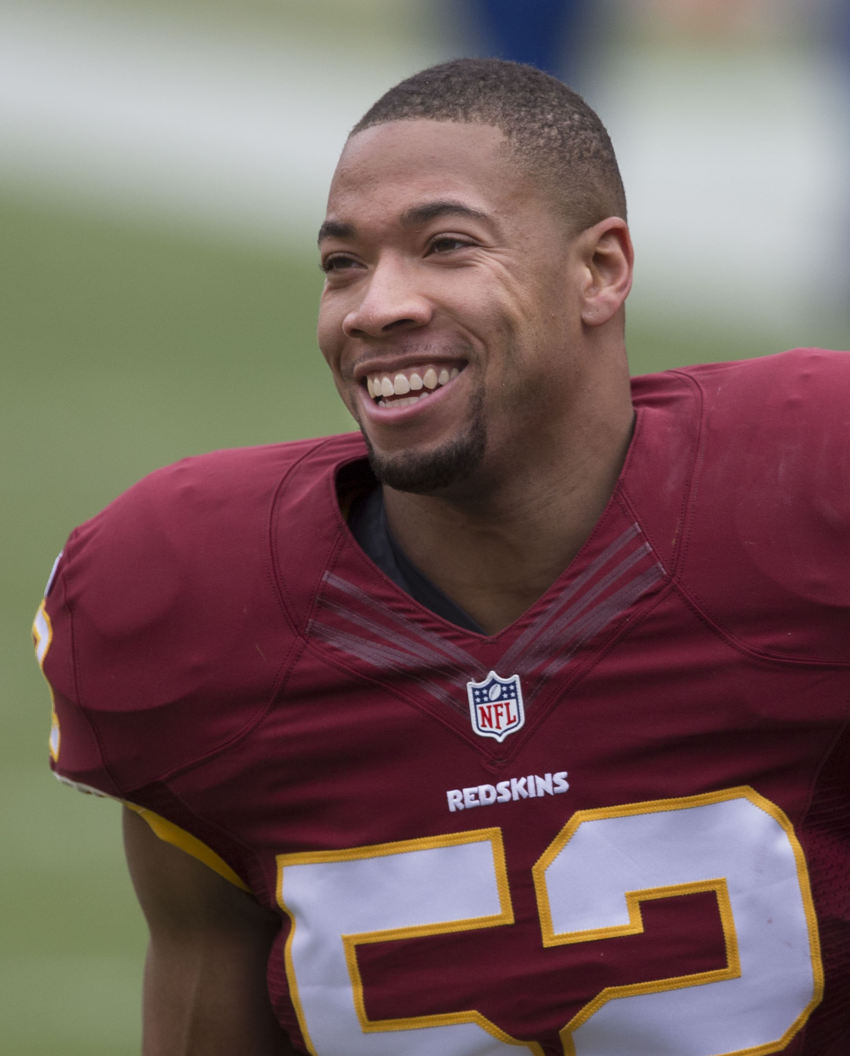 Buccaneers at Redskins 11/16/14